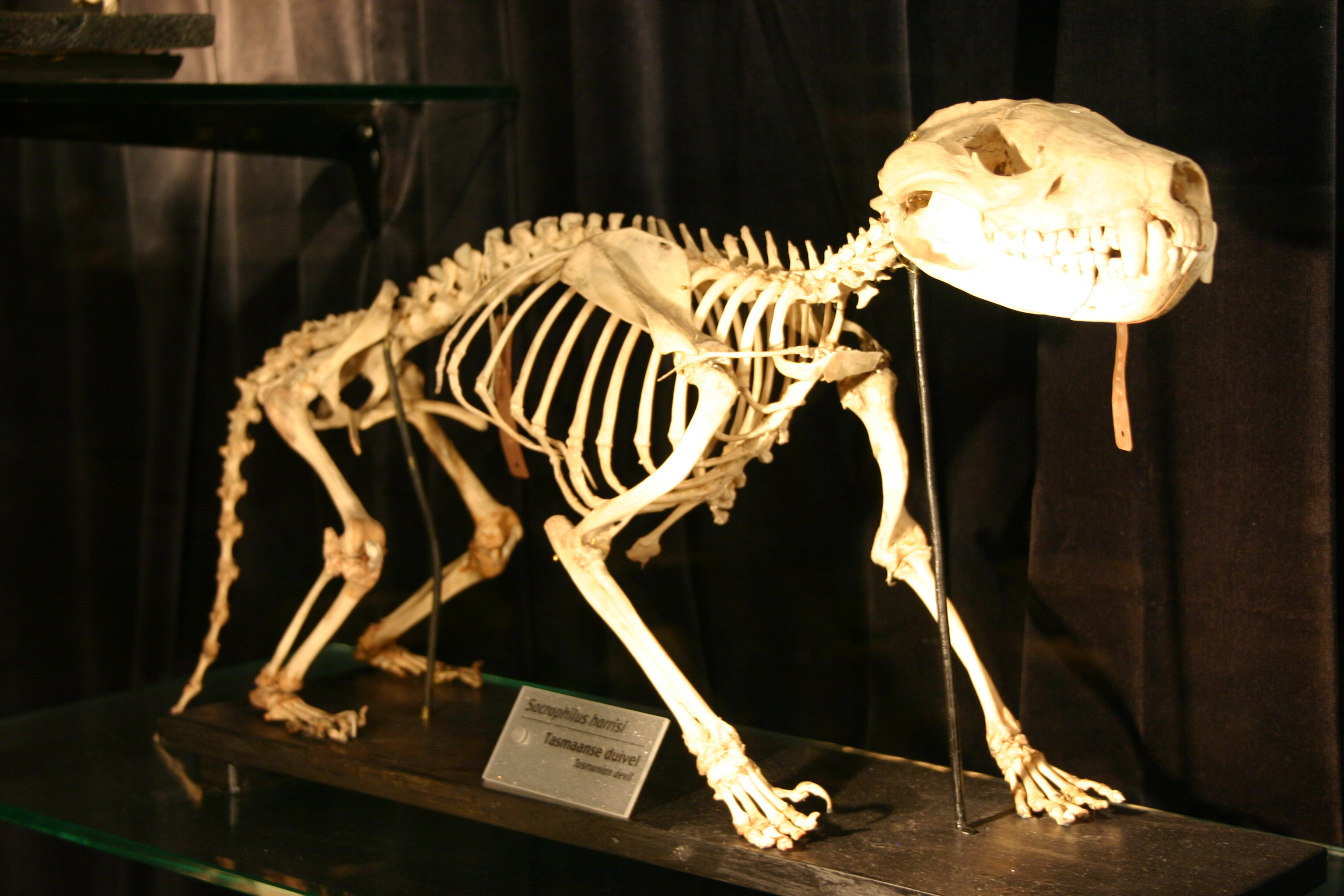 A mounted skeleton of a Tasmanian Devil in the NEMO Science Center.